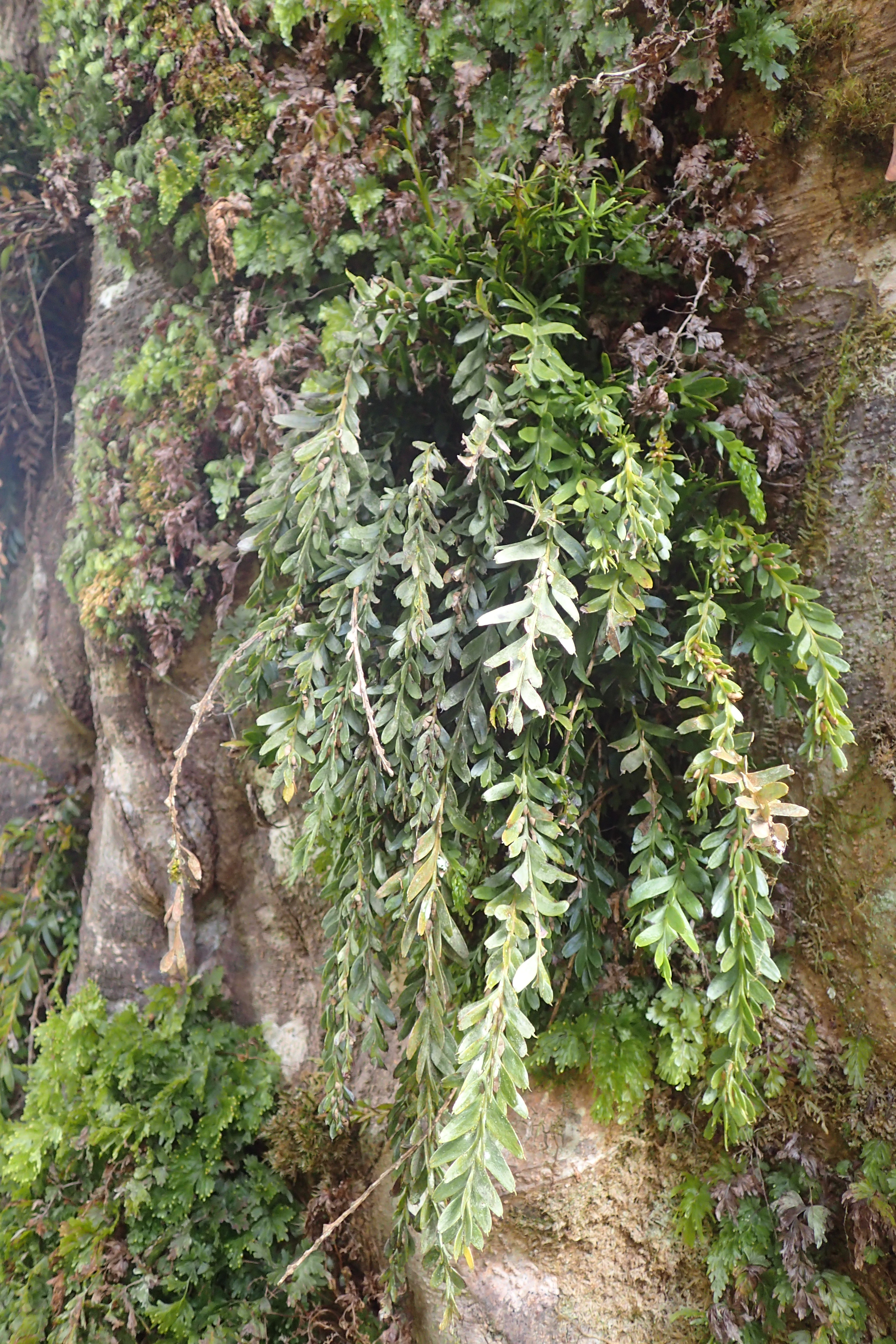 Tmesipteris tannensis near Stratford Mountain House in Edmont National Park, Taranaki (New Zealand)